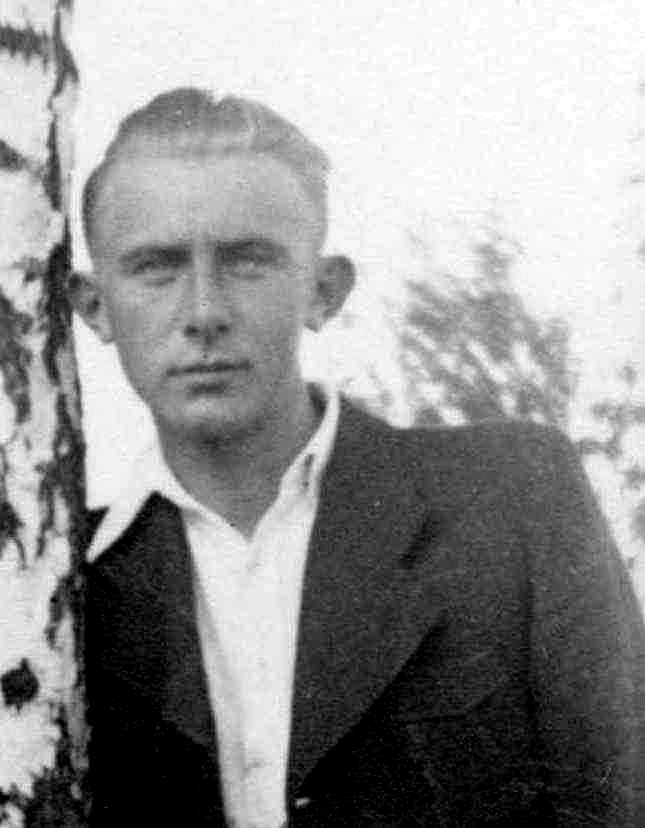 Wiesław Witecki in his youth